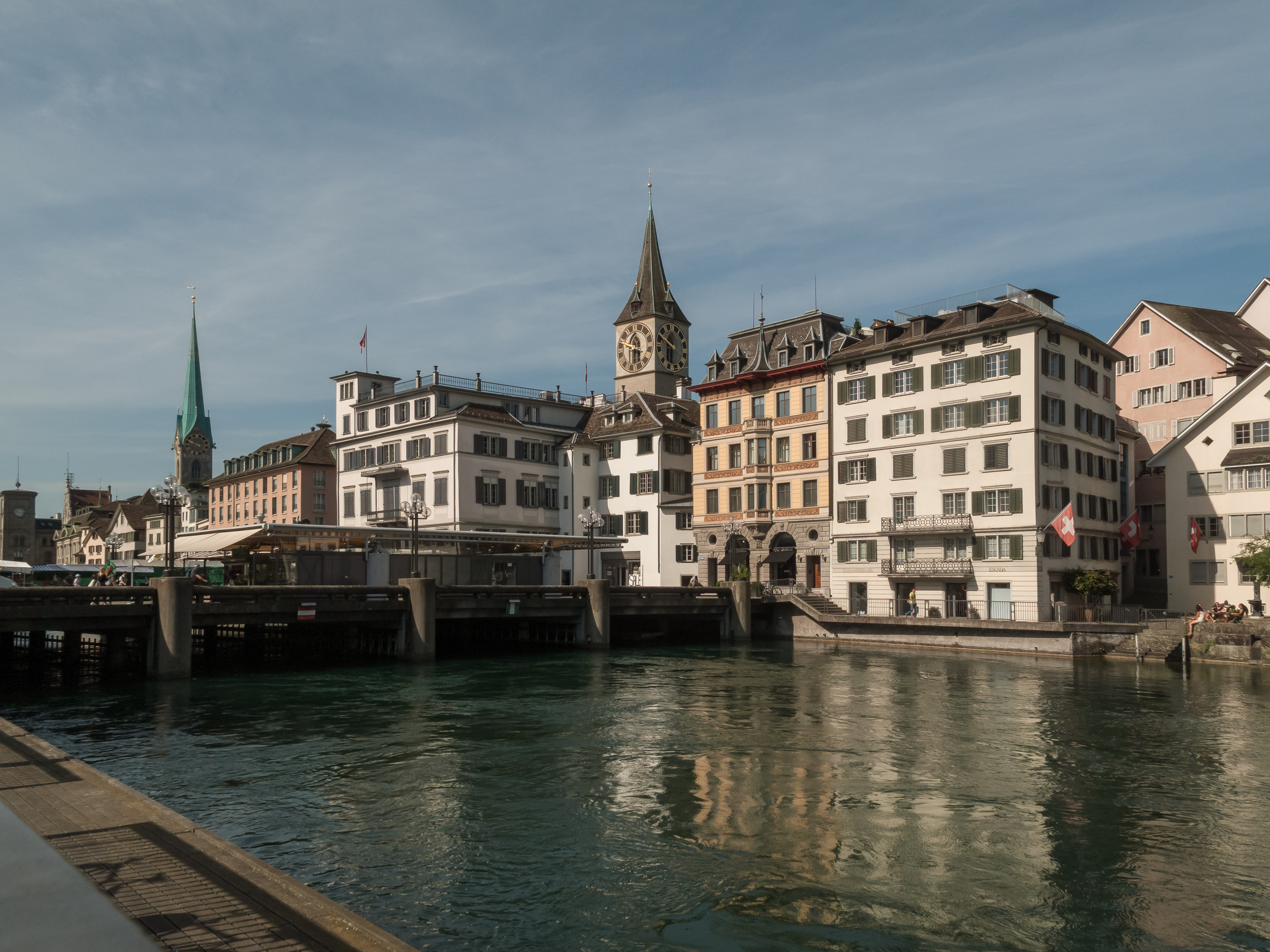 Zürich, view to the street near townhall